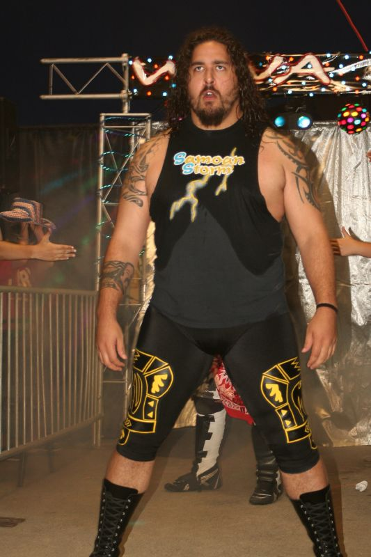 Professional wrestler Afa Anoa'i, Jr. at a WWA show in July 2009